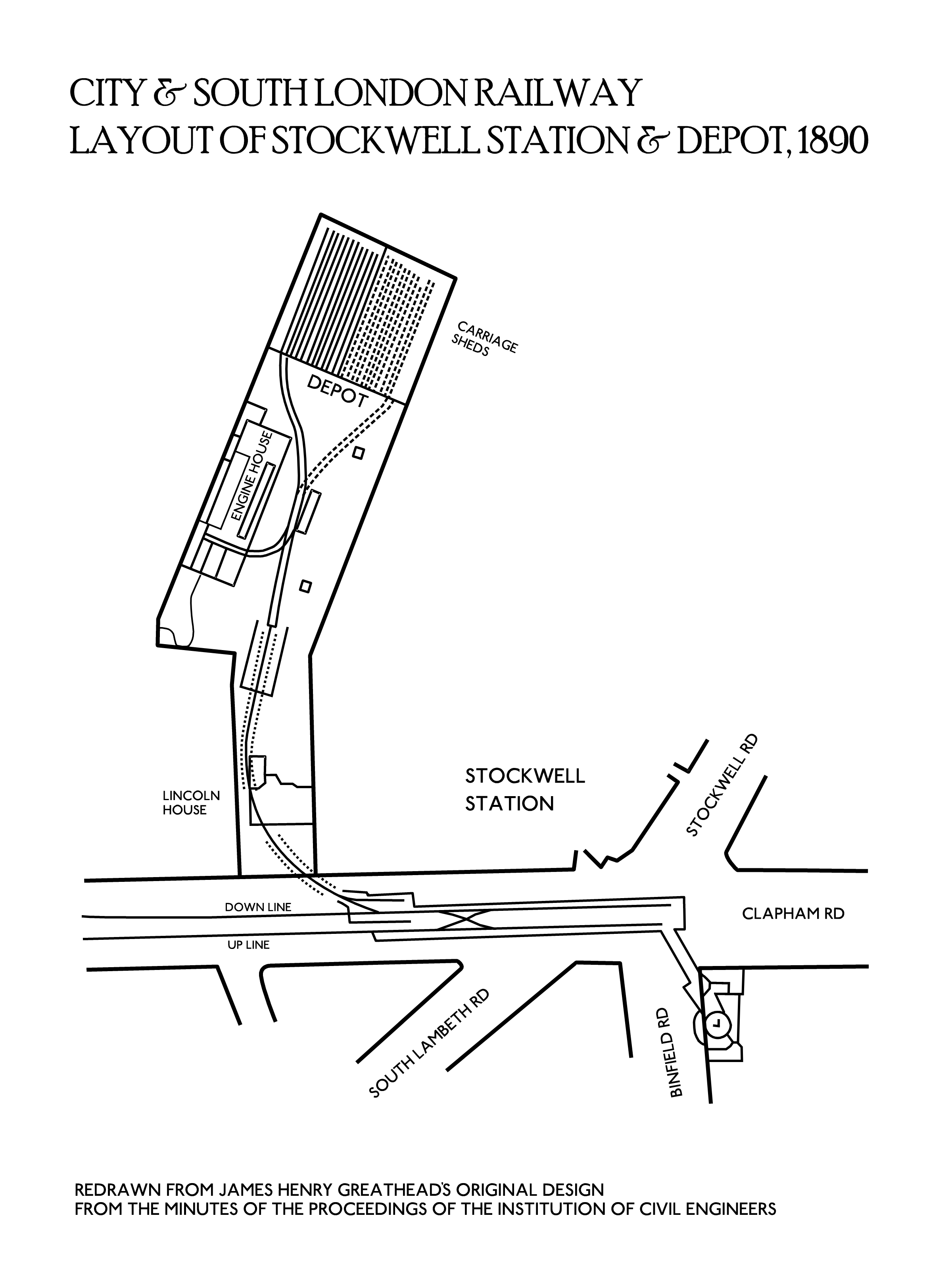 Plan of the City and South London Railway's station and depot at Stockwell as laid out in 1890. Subsequently, the station was rebuilt when the line was extended to Clapham. Image based on part of plan by James Henry Greathead's submitted to the Institution of Civil Engineers in 1890. See File:City and South London Railway Engineering Drawing.jpg for original.